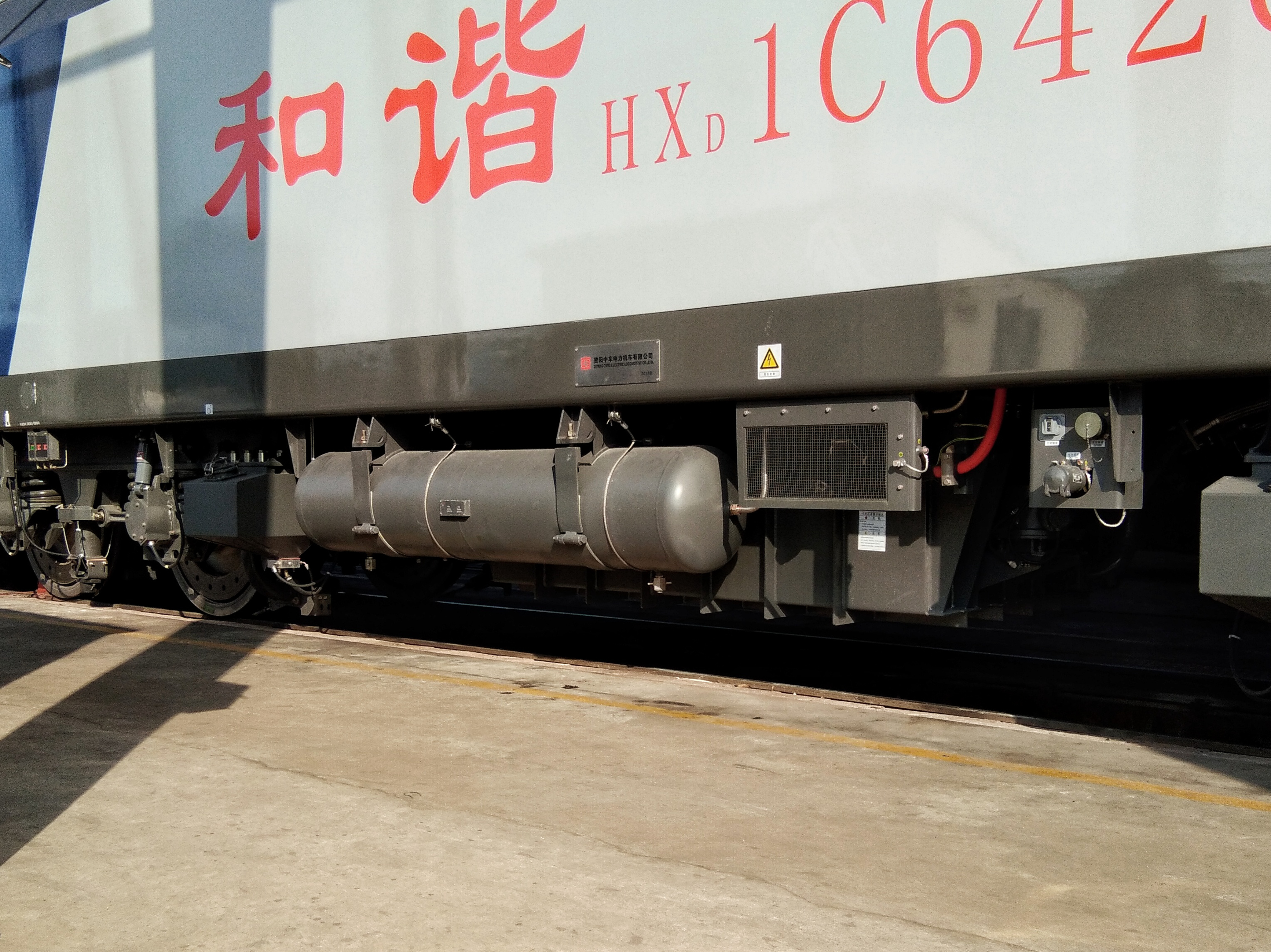 HXD1C-6426 in Liuzhou Locomotive Depot, Nanning Railway Bureau, 4th November, 2017.